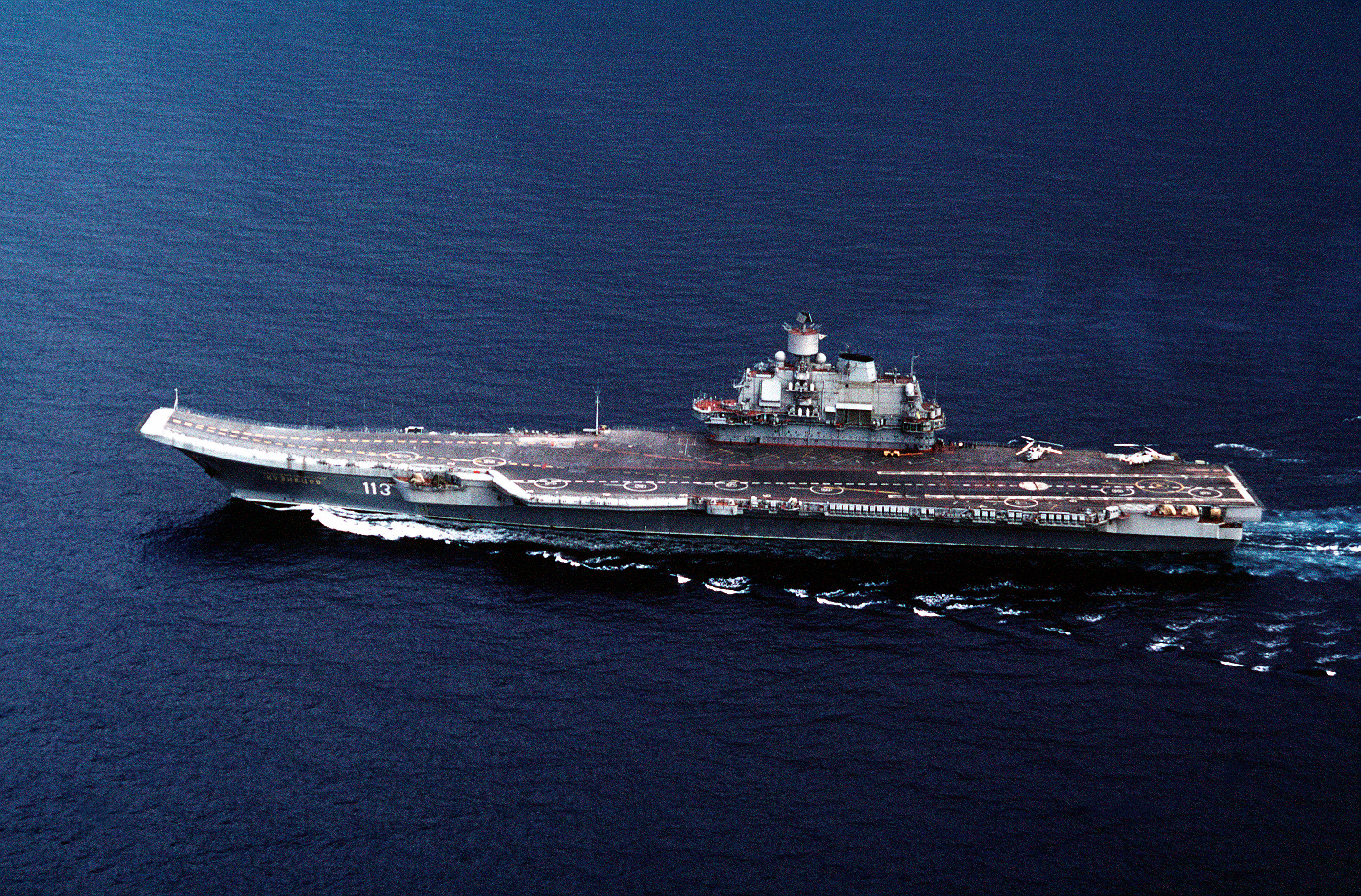 A port beam view of the Soviet aircraft carrier FLEET ADMIRAL of the SOVIET UNION KUZNETSOV underway south of Italy. The KUZNETSOV is en route to duty with the Soviet Northern Fleet.